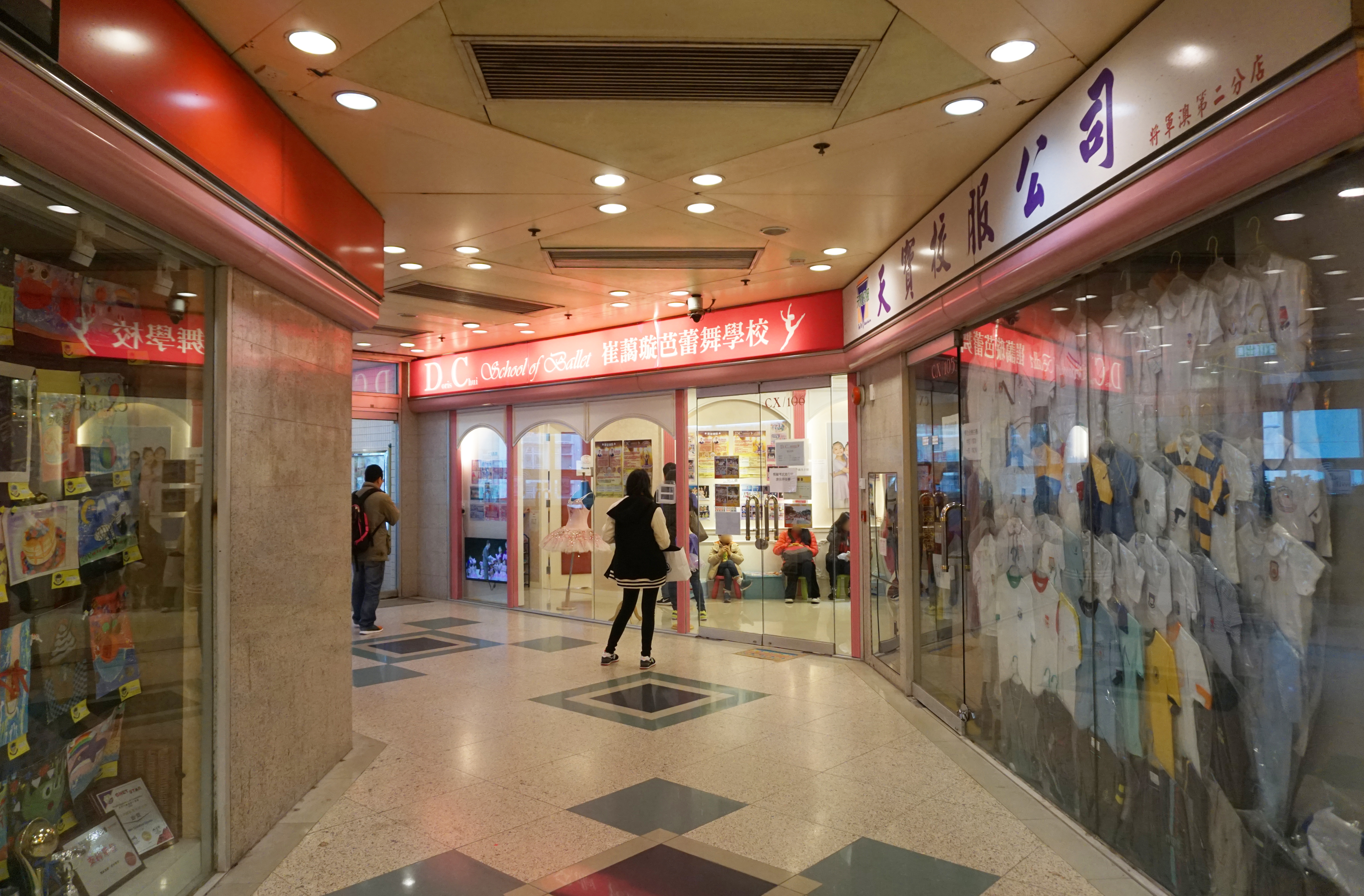 Ming Tak Shopping Centre in Hang Hau, Hong Kong.